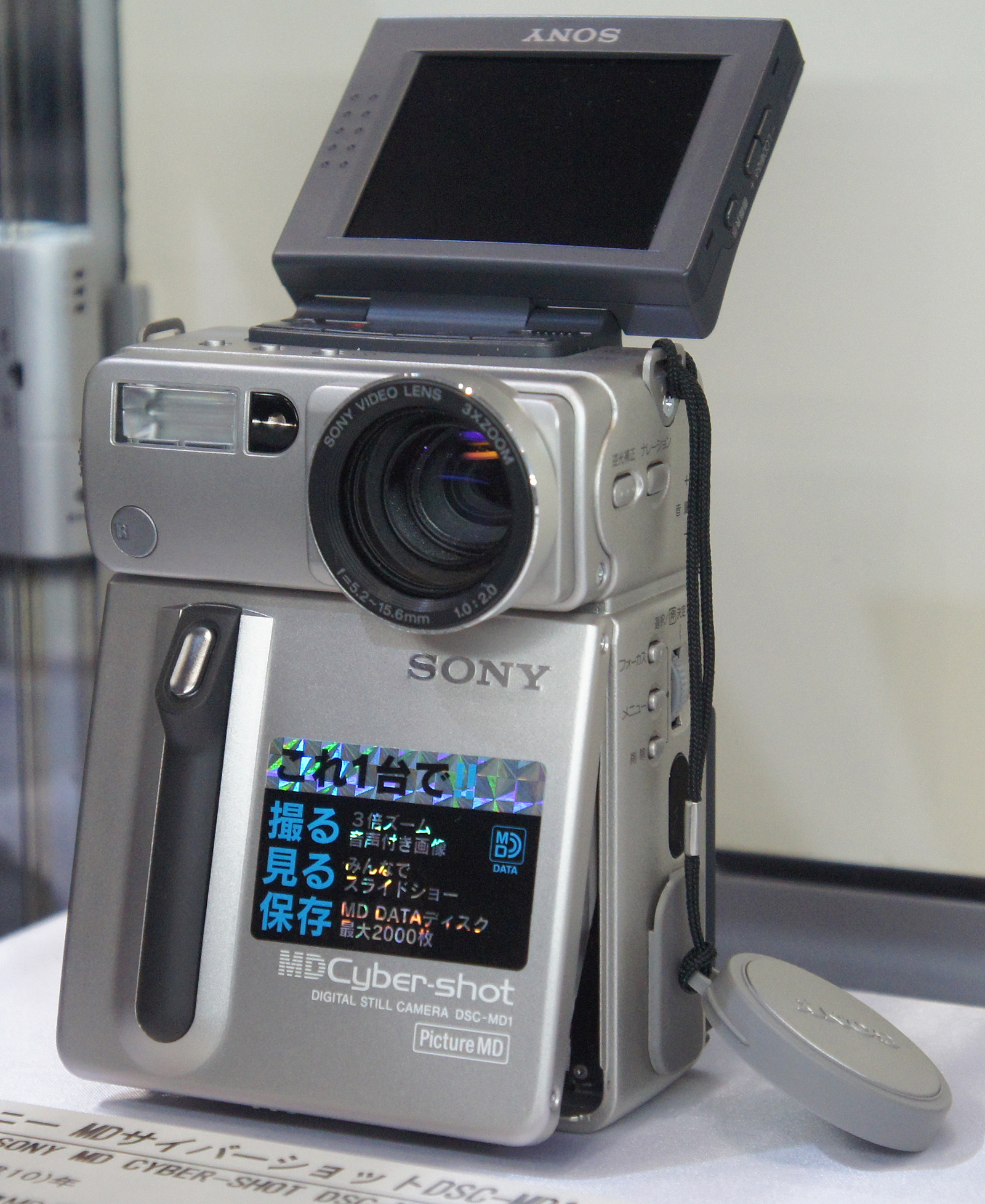 CP+ 2011: 1998 Sony CyberShot DSC-MD1